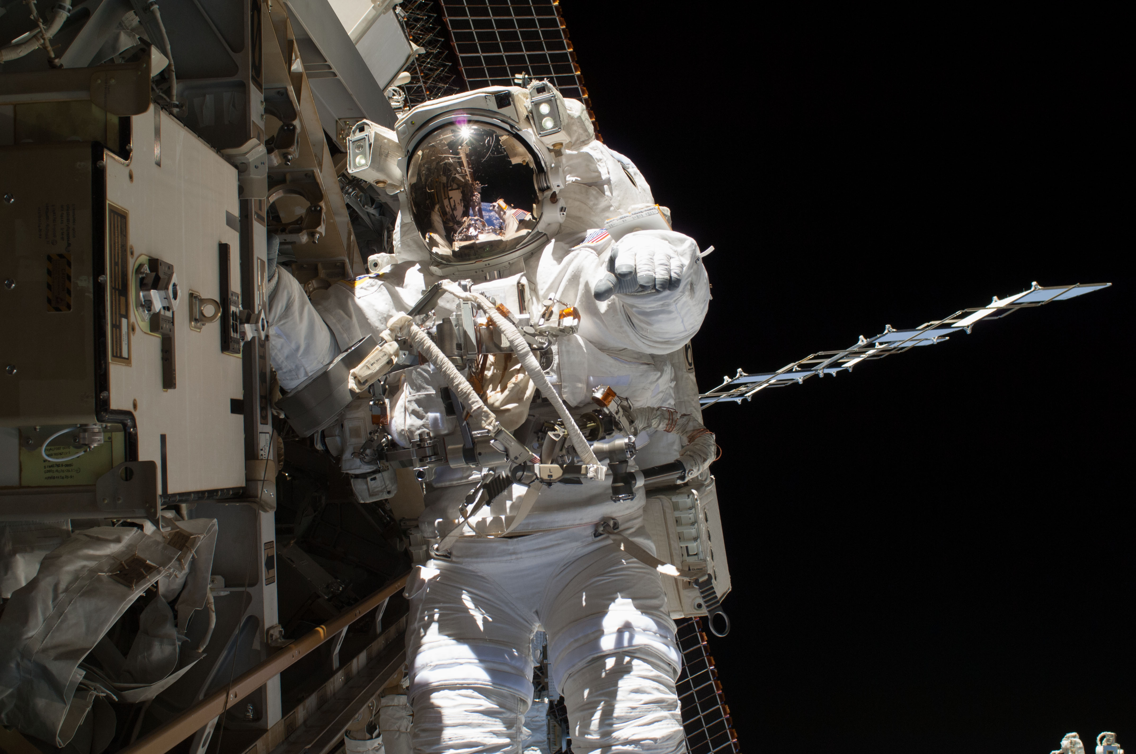 NASA astronaut Steve Swanson is pictured during a spacewalk to replace a failed backup computer relay box in the S0 truss of the International Space Station on April 22, 2014. He was accompanied on the spacewalk by fellow Flight Engineer Rick Mastracchio of NASA, who can be seen as a tiny figure anchored several yards away reflected in Swanson's helmet visor.